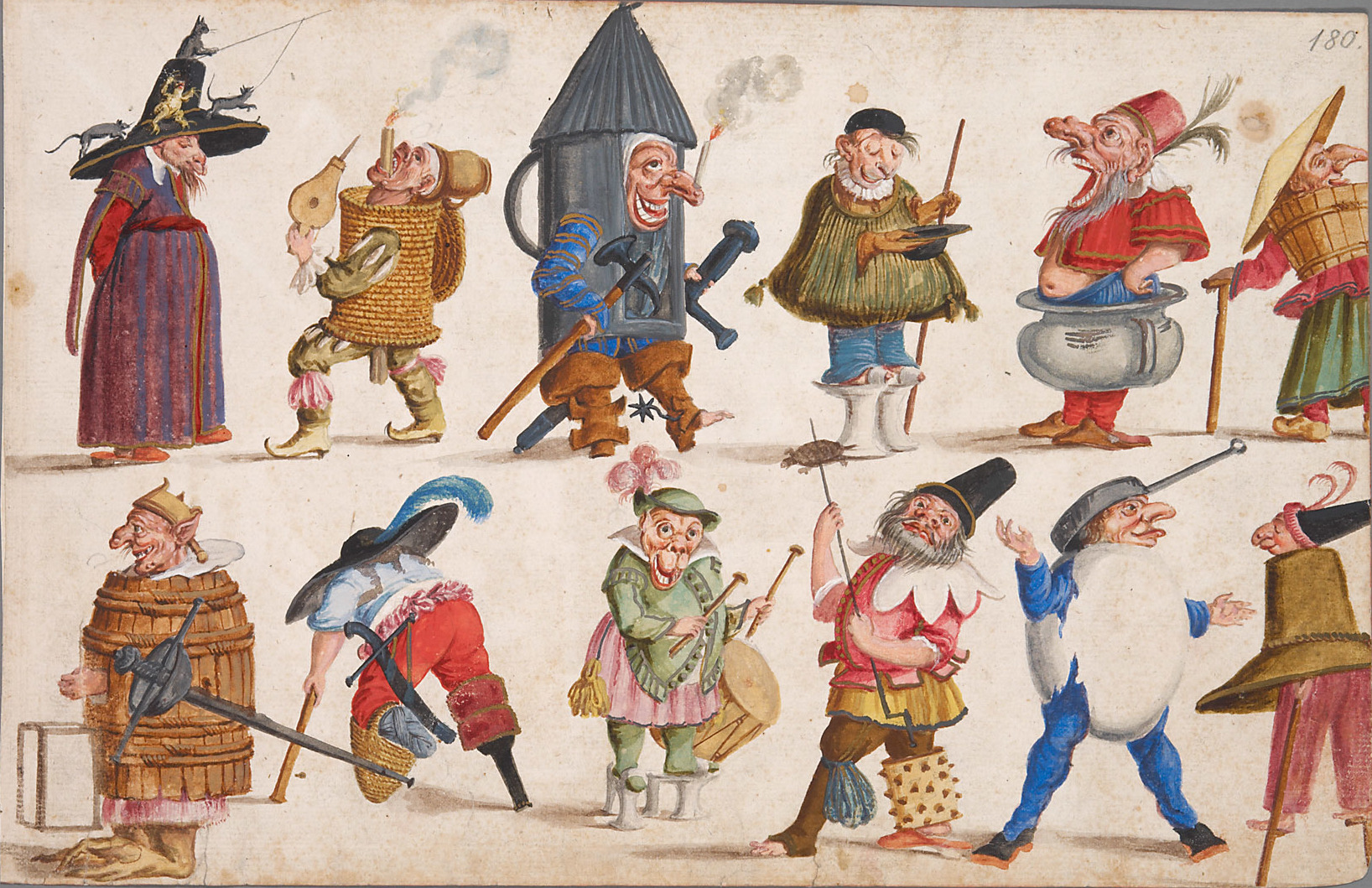 Costume designs for grotesques and commedia dell'arte characters, probably for the festivities at the Hapsburg Court known as "Wirtschaften". Watercolour on opaque paper